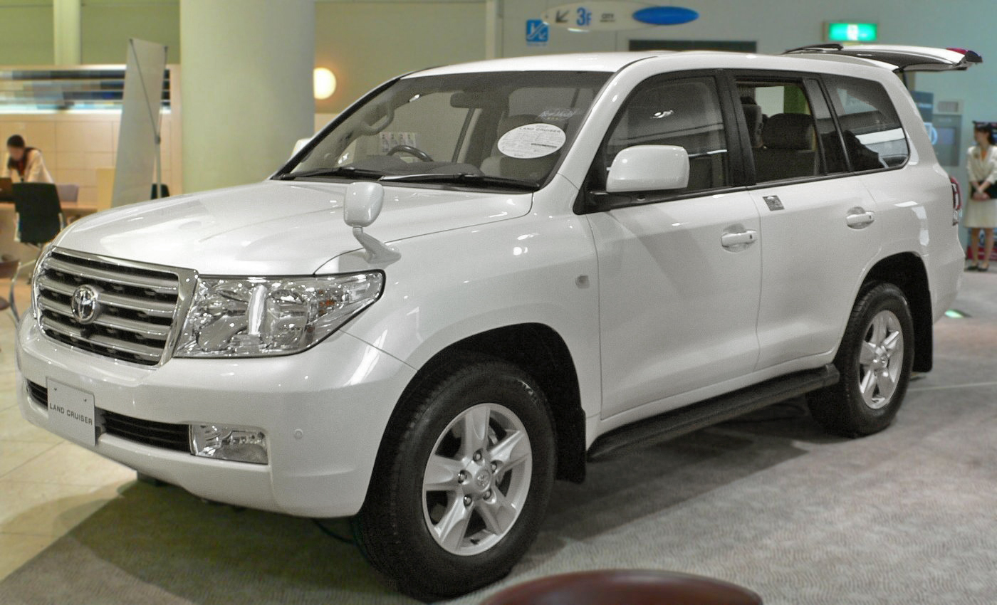 Toyota Land Cruiser-200 photographed in the Showroom of Toyota (Amlux)